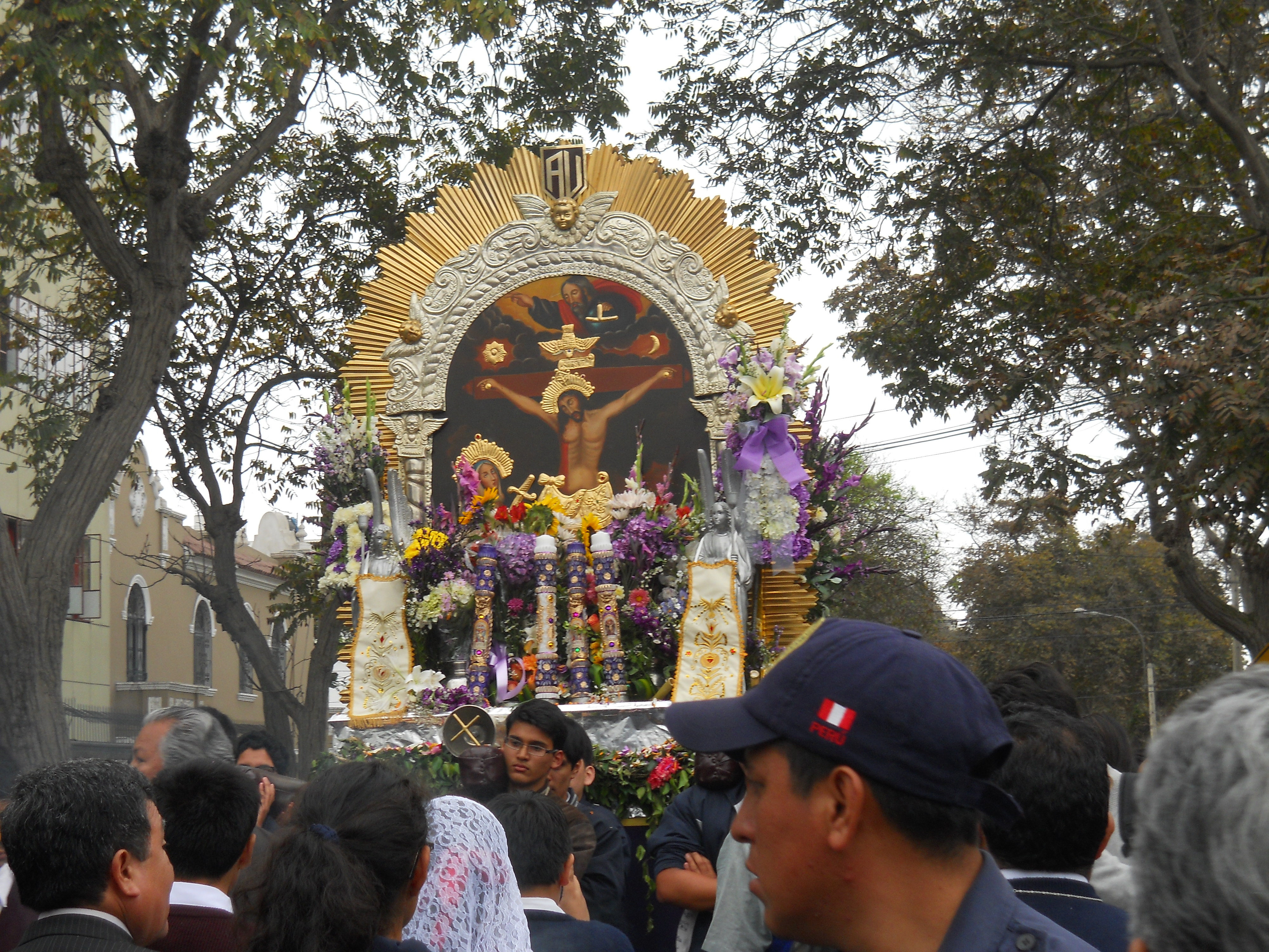 Lord of Miracles of Alfonso Ugarte High School in San Isidro District, Lima-Peru